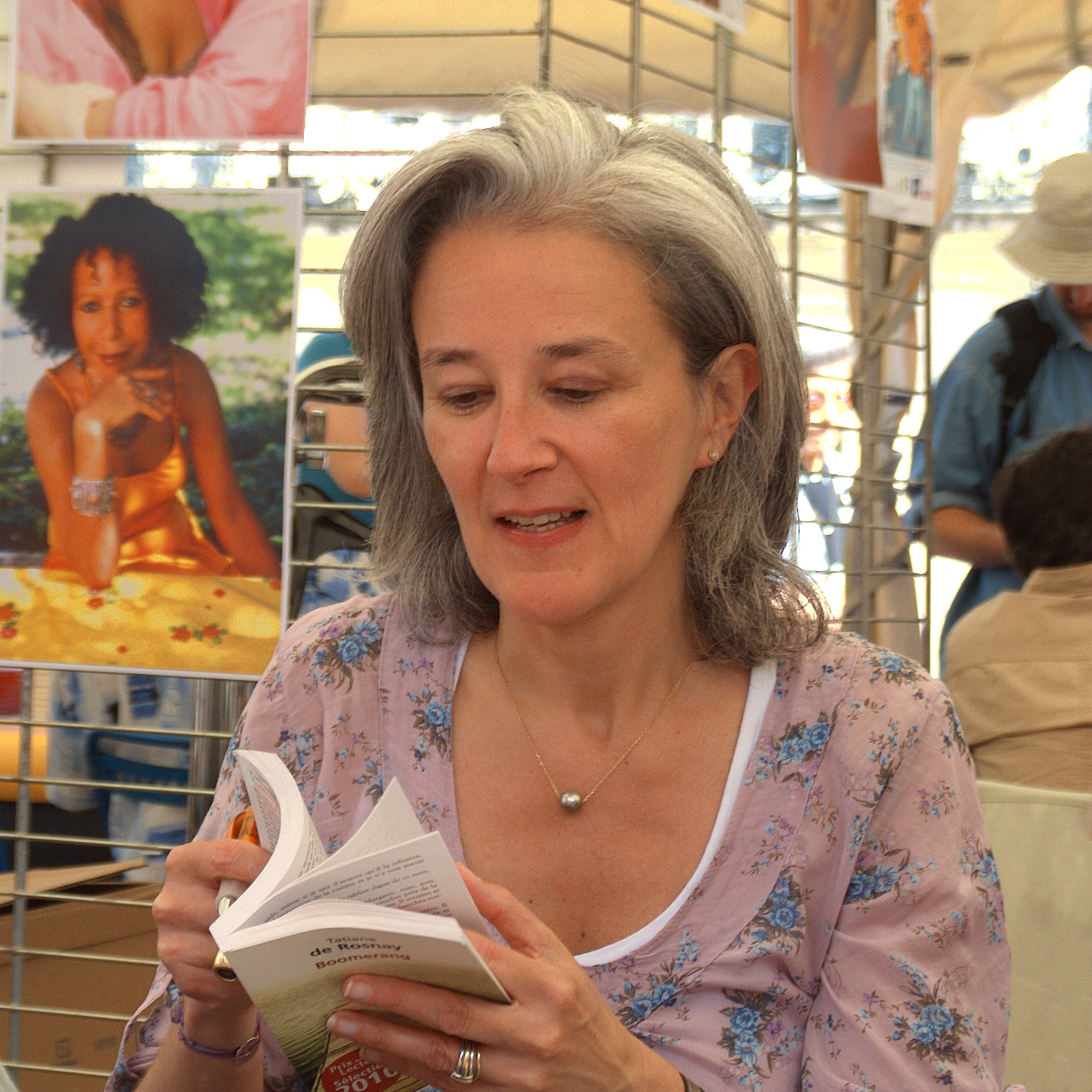 French and English writer Tatiana de Rosnay